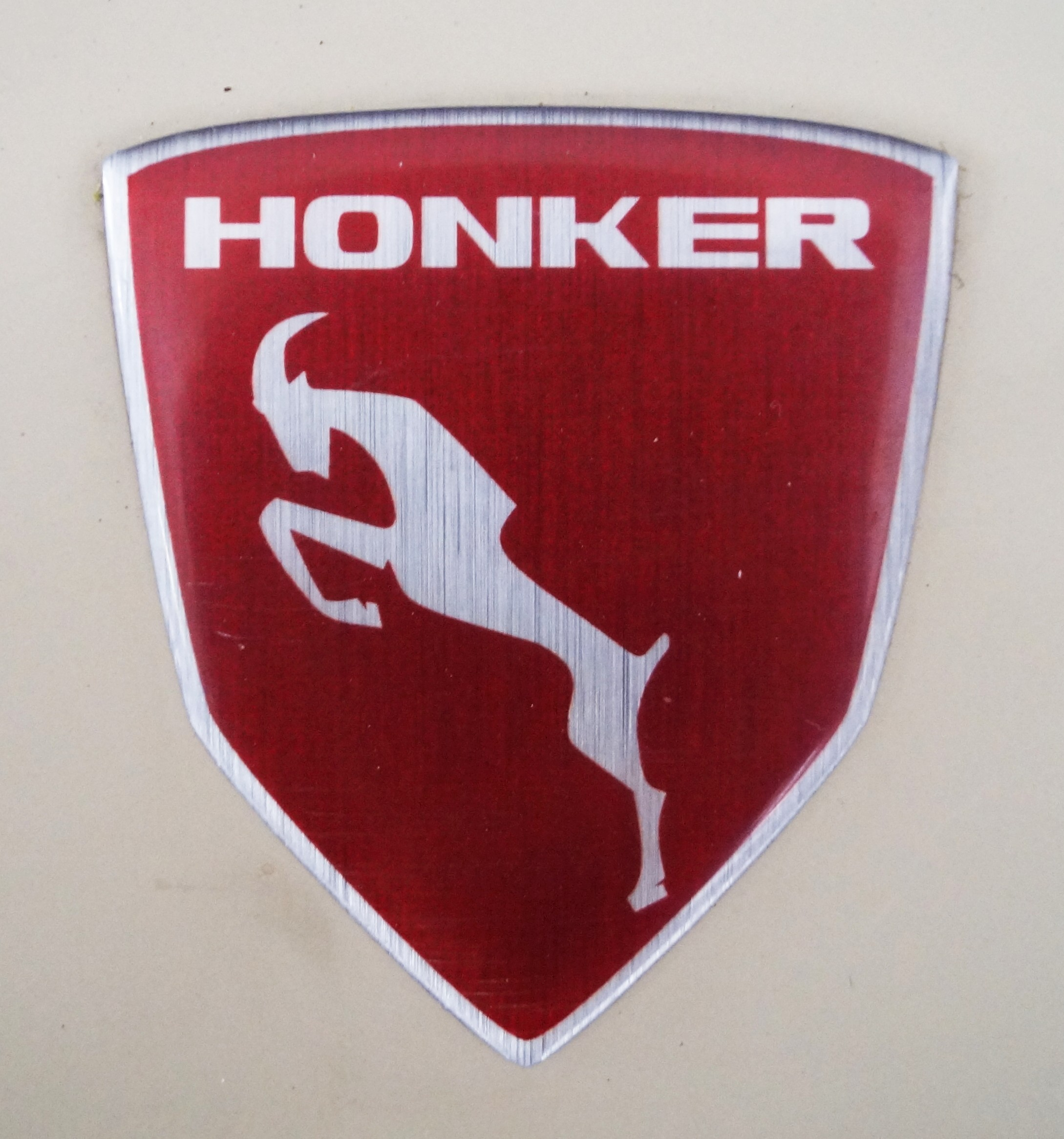 This photo was taken during Automotive Wikiexpedition 2016 set up by Wikimedia Polska Association. You can see all photographs in category Wikiekspedycja motoryzacyjna 2016. English | Polski | +/− Logo Honkera na Honkerze 4x4